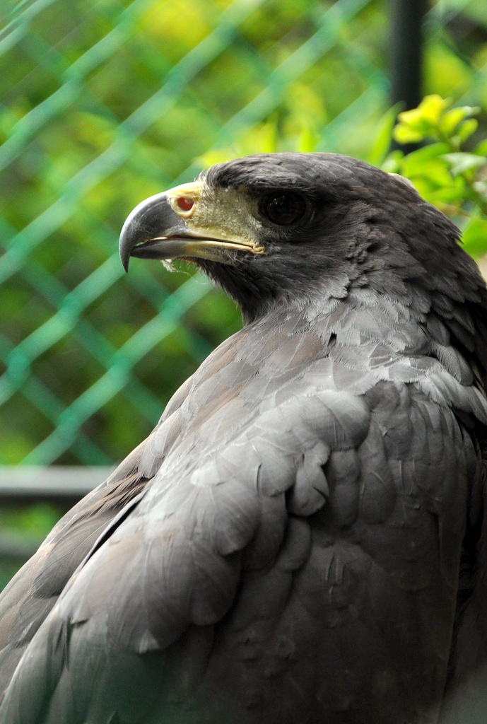 Great Black Hawk (Buteogallus urubitinga) at Baranquilla Zoo, Colombia.